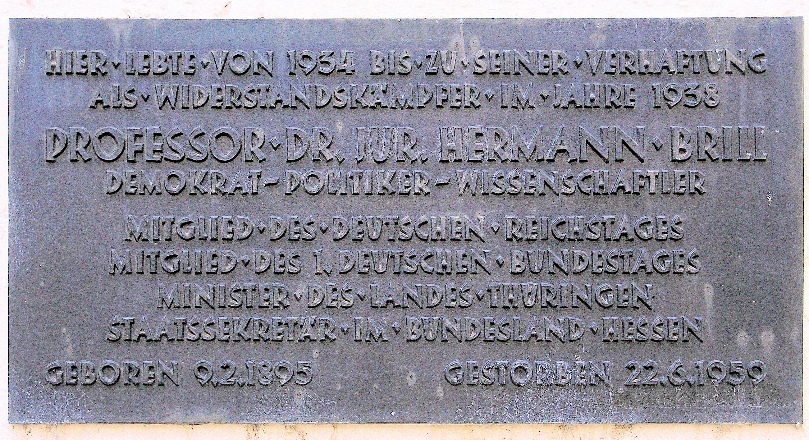 Memorial plaque, Hermann Louis Brill, Karlsruher Straße 13, Berlin-Halensee, Germany Koordinate:52°30′2.9″N 13°17′40.3″E / 52.500806°N 13.294528°E